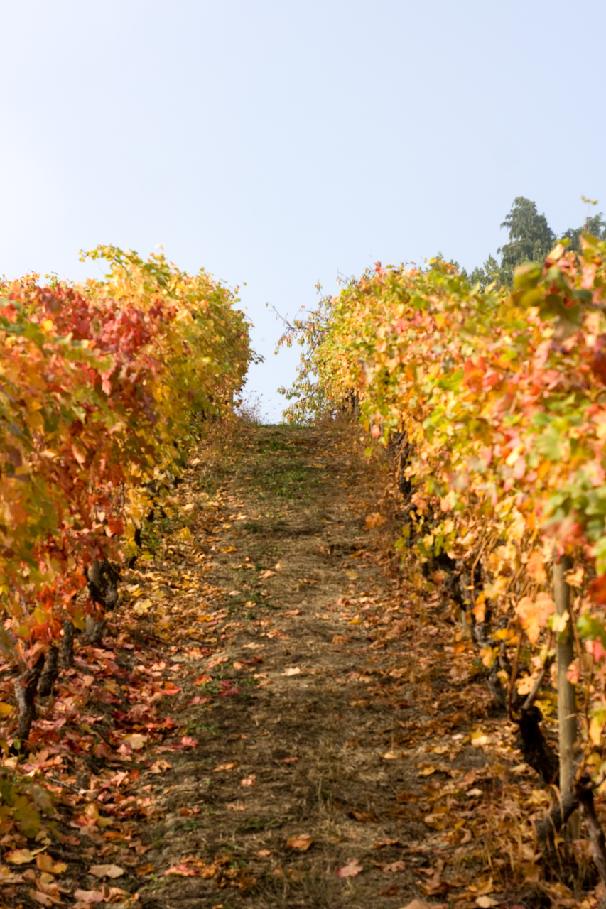 A vineyard in the Italian wine region of Piedmont during autumn